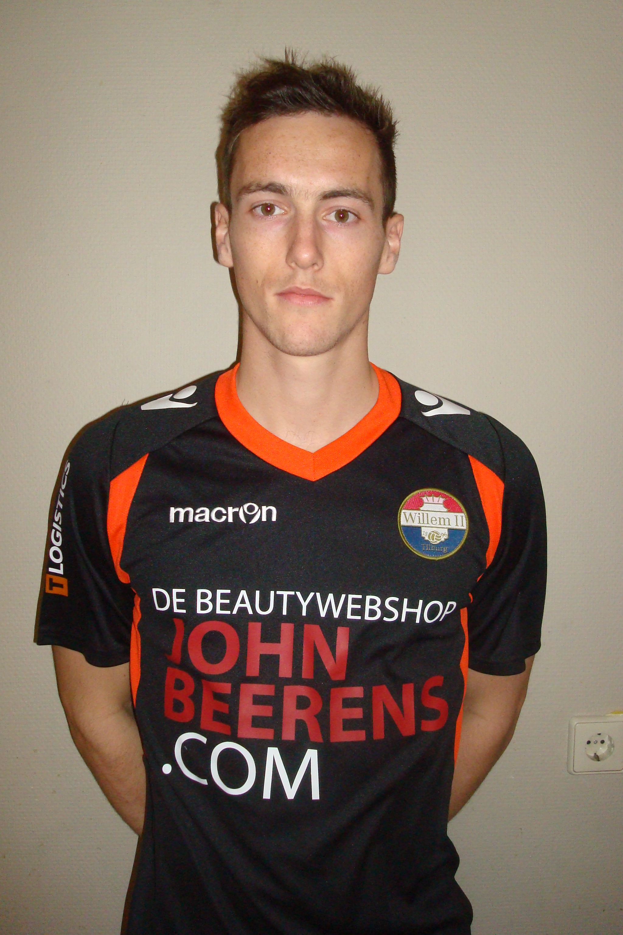 Freek Heerkes in het shirt van Willem II seizoen 2013/2014